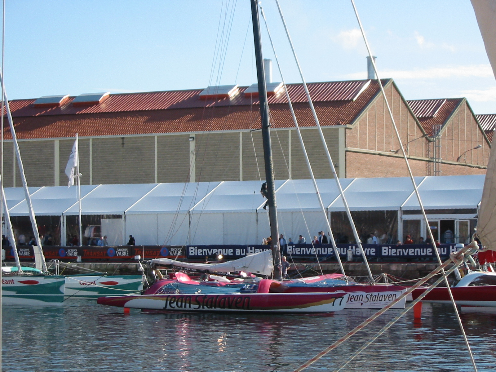 Ship Jean Stalaven in Le Havre (France, Normandy)